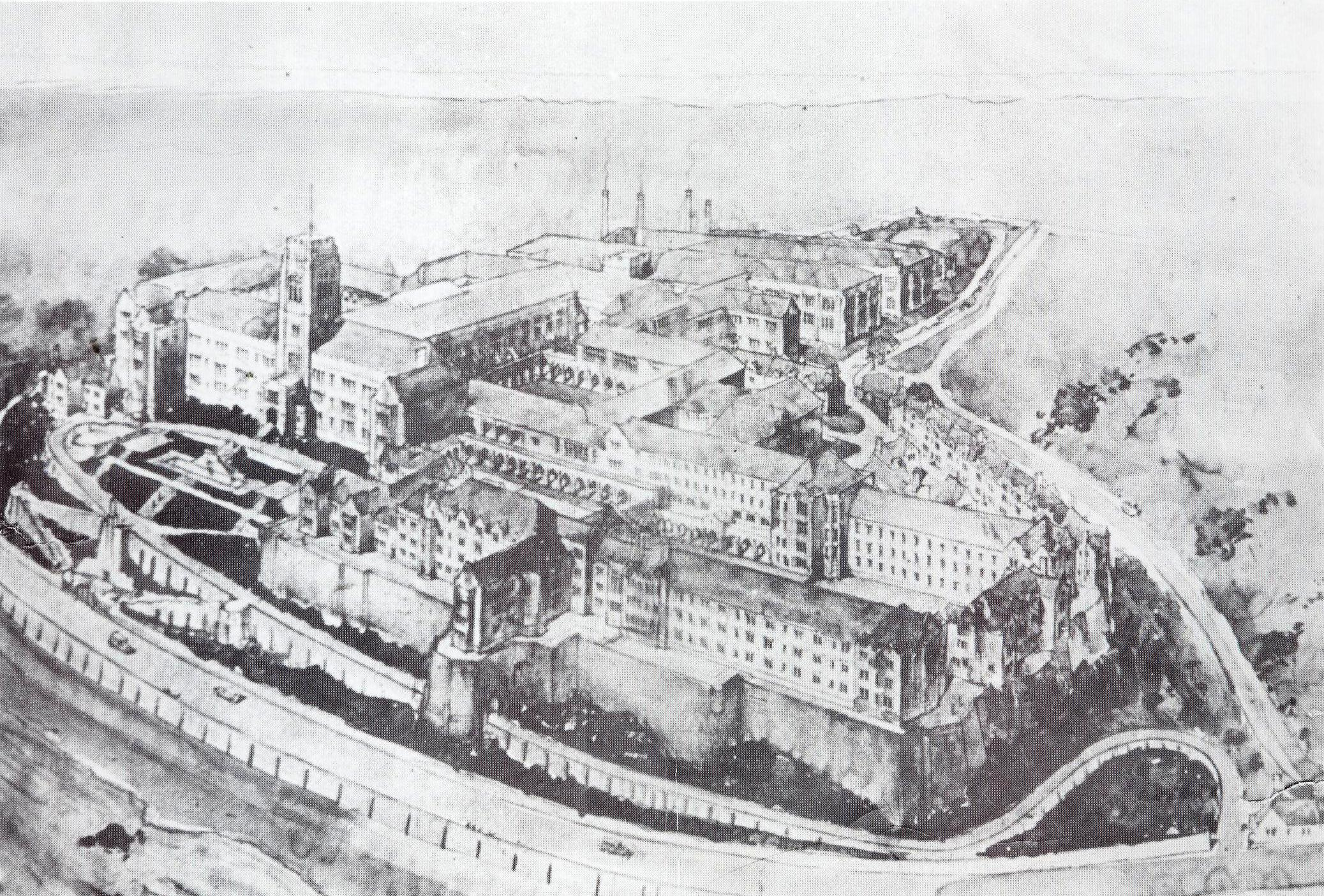 UTFSM